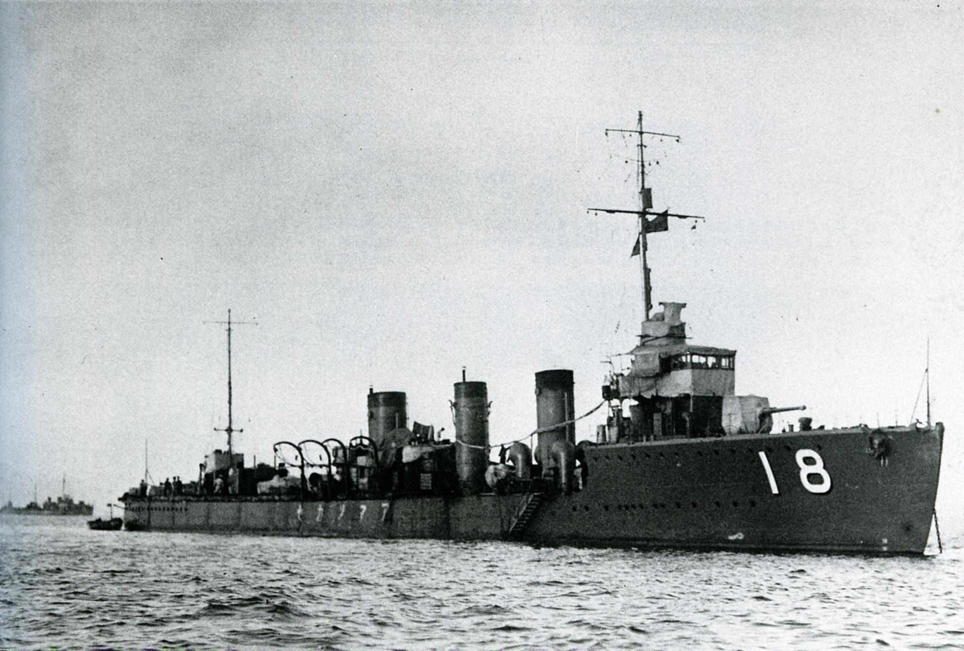 Japanese destroyer Amatsukaze on patrol in Yangzi River, China